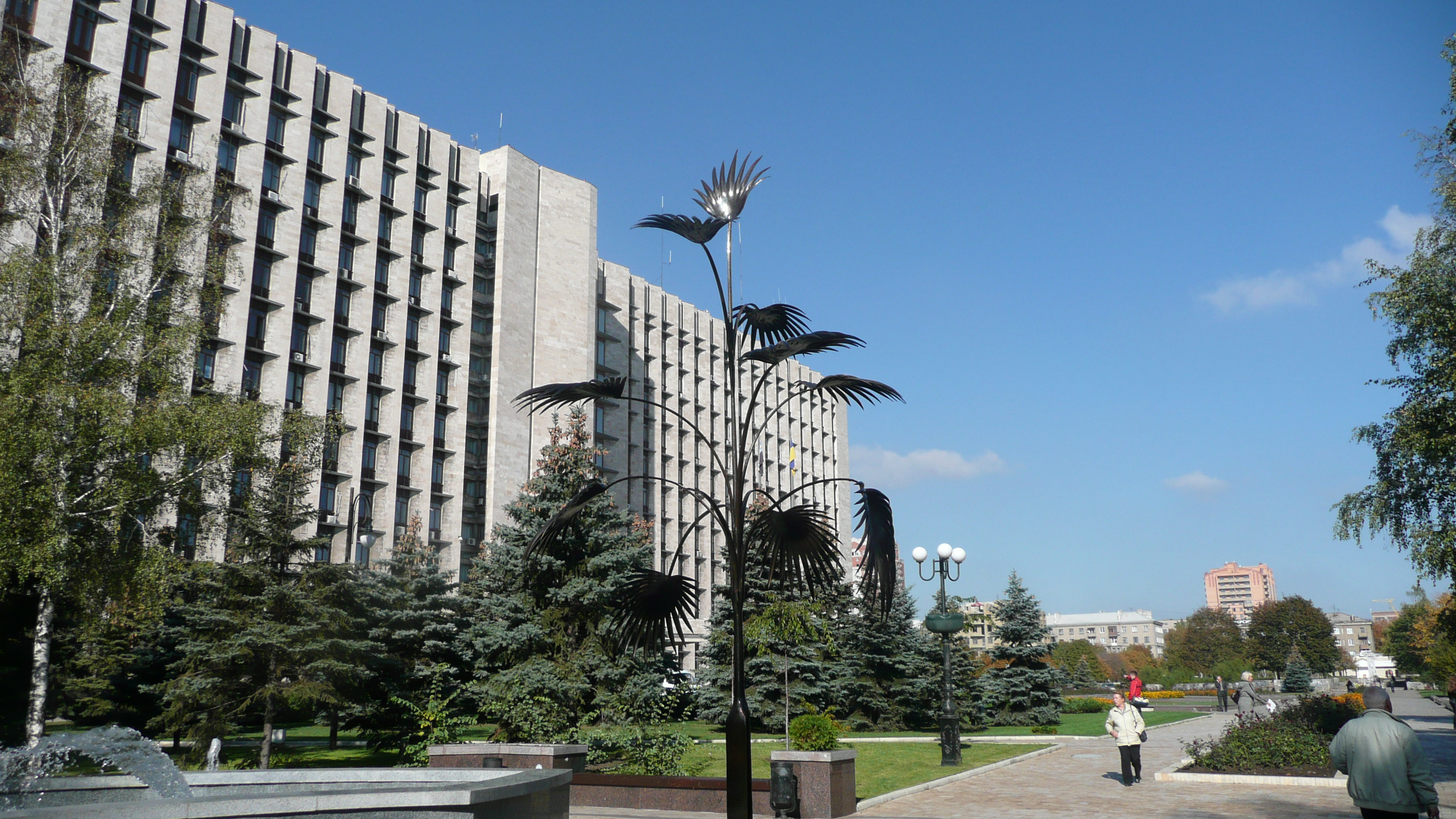 Regional Administration of Donezk with the Mertsalov palm